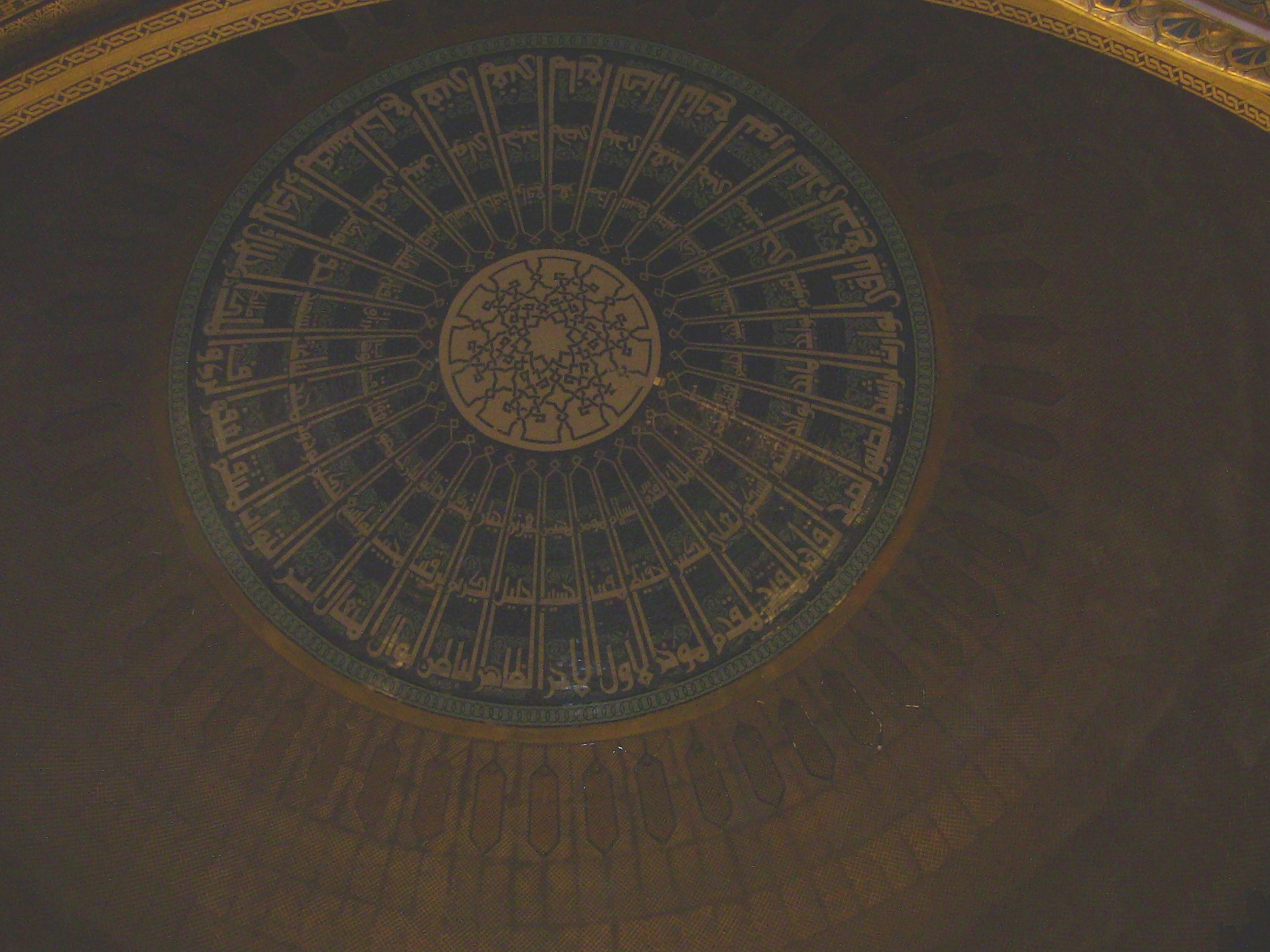 99 Names of God, ceiling of Grand mosque in Kuwait